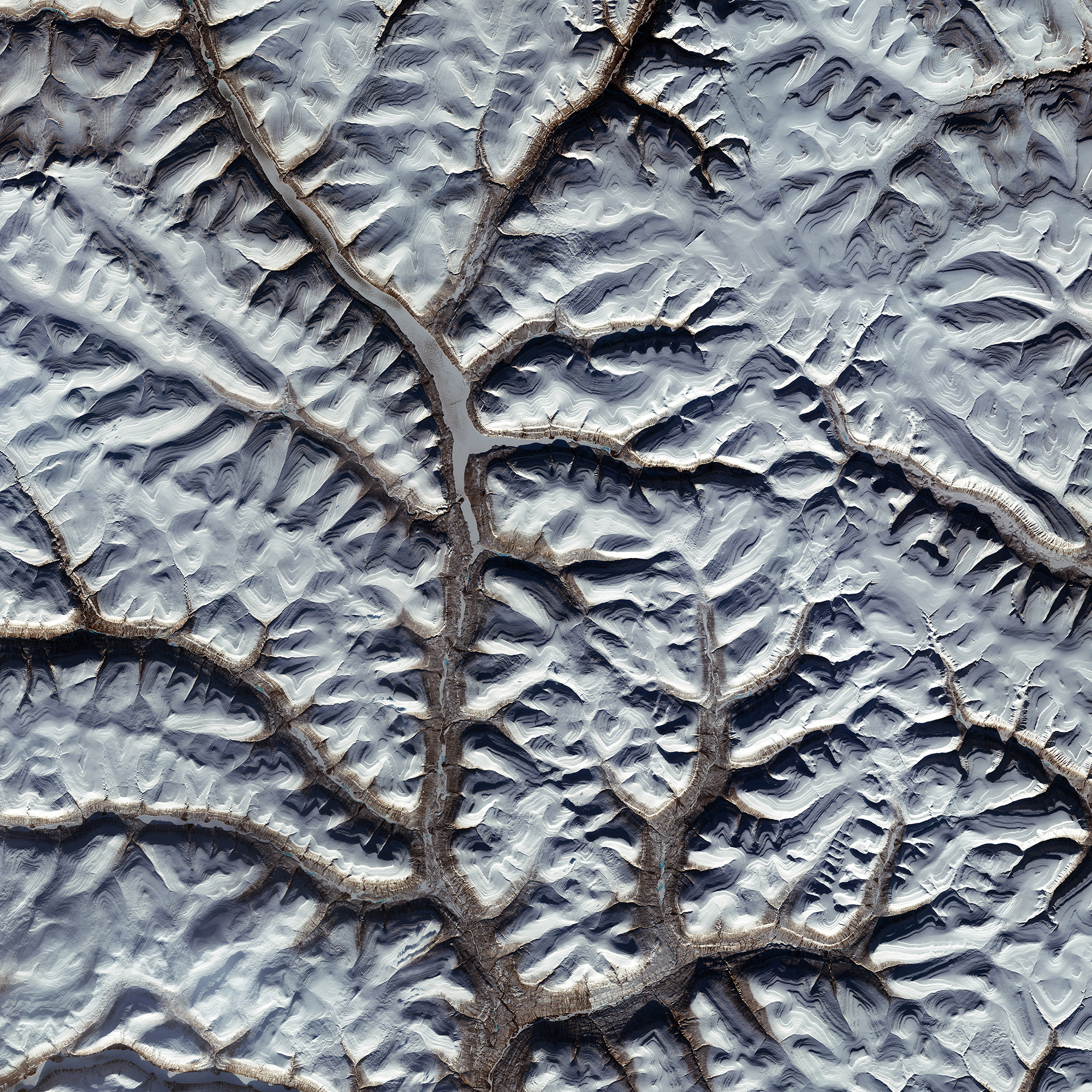 Sentinel-2A brings us over the snowy landscape of the Putorana Plateau in northern Central Siberia. The area pictured shows part of the Putoransky State Nature Reserve, which is listed as a UNESCO World Heritage Site. Situated about 100 km north of the Arctic Circle, the site serves as a major reindeer migration route – an increasingly rare natural phenomenon – and is one of the very few centres of plant species richness in the Arctic. Virtually untouched by human influence, this isolated mountain range includes pristine forests and cold-water lake and river systems. The lakes are characterised by elongated, fjord-like shapes, such as Lake Ayan in the upper-central part of the image. Zooming in on the lake we can see that it is mostly ice-covered, with small patches of water peeking through around its lower reaches. Another feature of this area are the flat-topped mountains, formed by a geological process called ‘plume volcanism’: a large body of magma seeped through Earth’s surface and formed a blanket of basalt kilometres thick. Over time, cracks in the rock filled with water and eroded into the rivers and lakes we see today. This image, also featured on the Earth from Space video programme, was captured on 2 March 2016 by the Copernicus Sentinel-2A satellite.